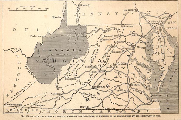 1862 Map Showing the Proposed State of Kanawha, from Frank Leslie's Pictorial History of the American Civil War, 1862 (Ma61- 25)